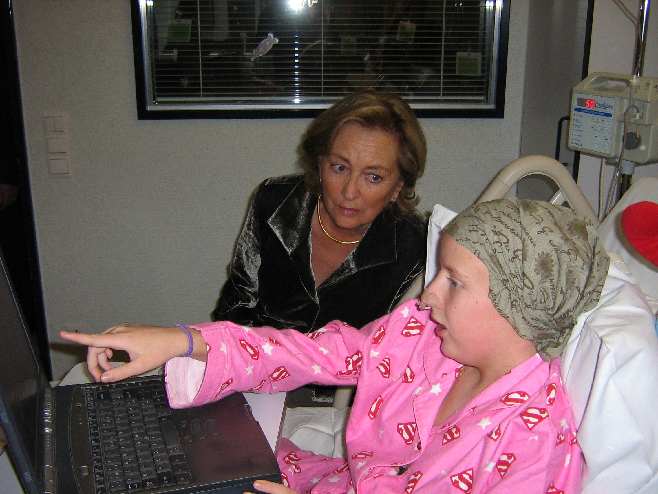 Queen Paola of Belgium visiting the oncology section of the Paola Children's Hospital in Antwerp (Belgium).